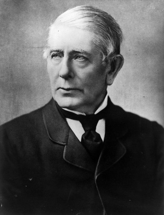 Portrait of John Johnston (died 1887), Member of the New Zealand Legislative Council.